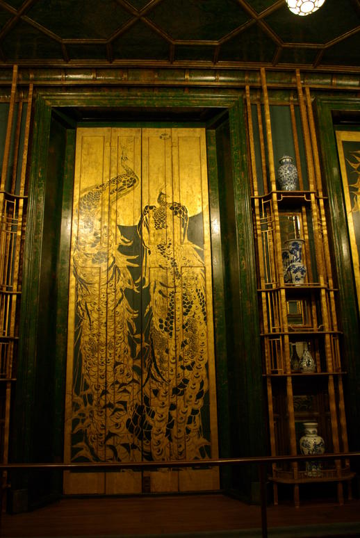 Detail of the Peacock Room, Freer Gallery, Washington DC.